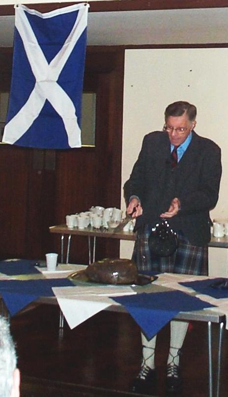 Dr Bob Purdie addressing the haggis during Burns supper, St Columba's United Reformed Church, Oxford, 2004-01-24. Copyright Kaihsu Tai